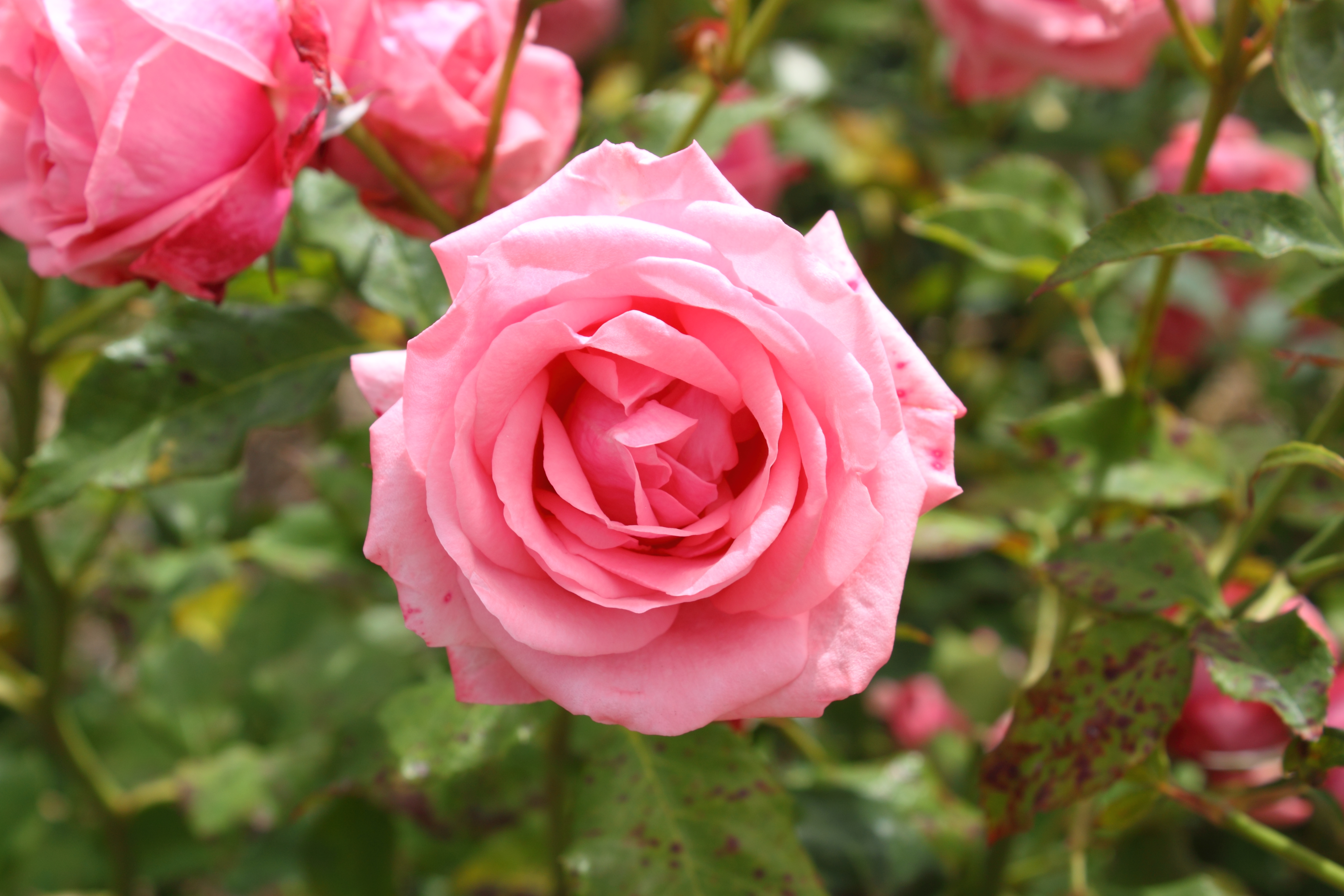 Rosa en 'Gene Boerner'